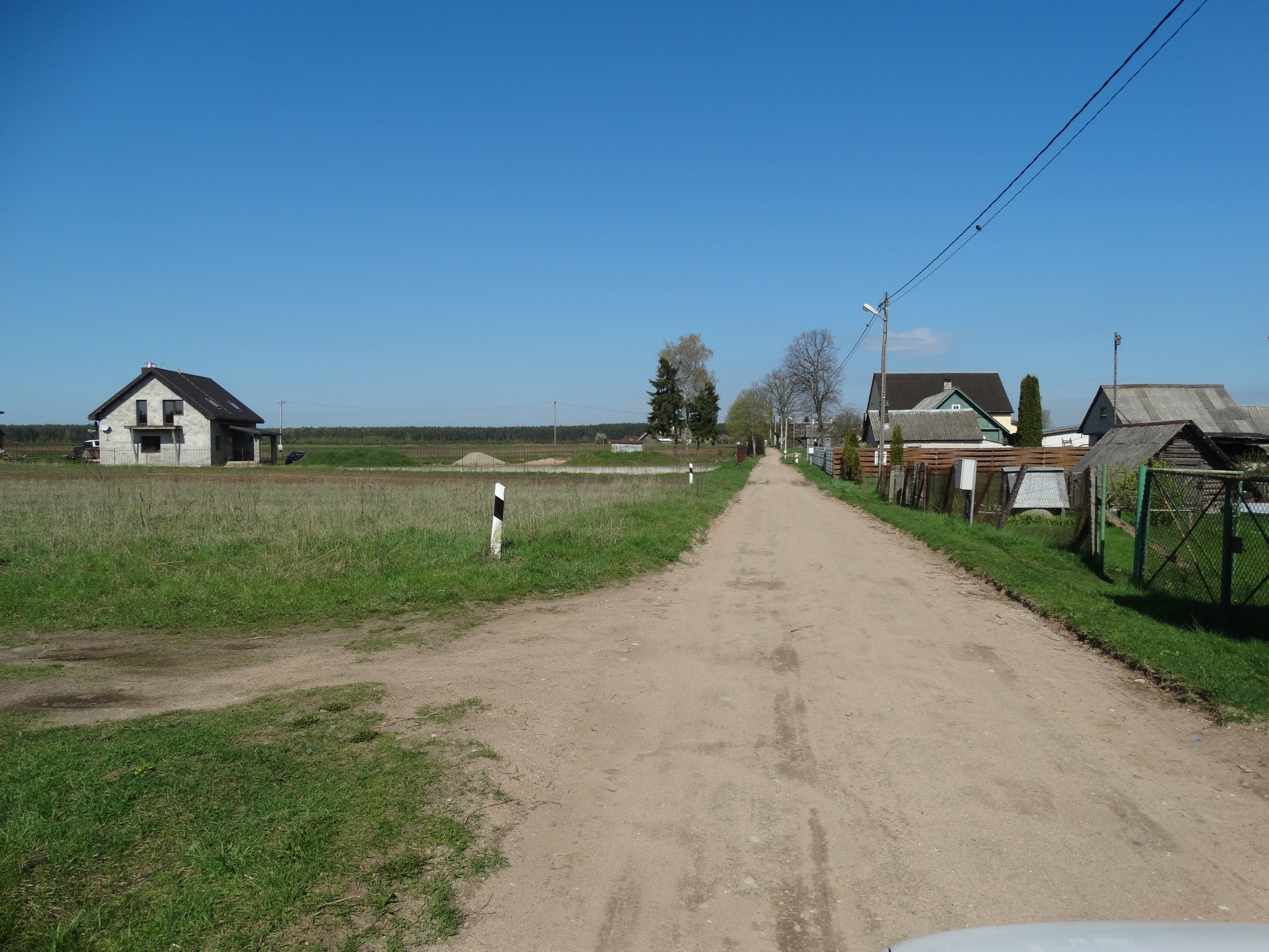 Skurbutėnai, Vilnius District, Lithuania